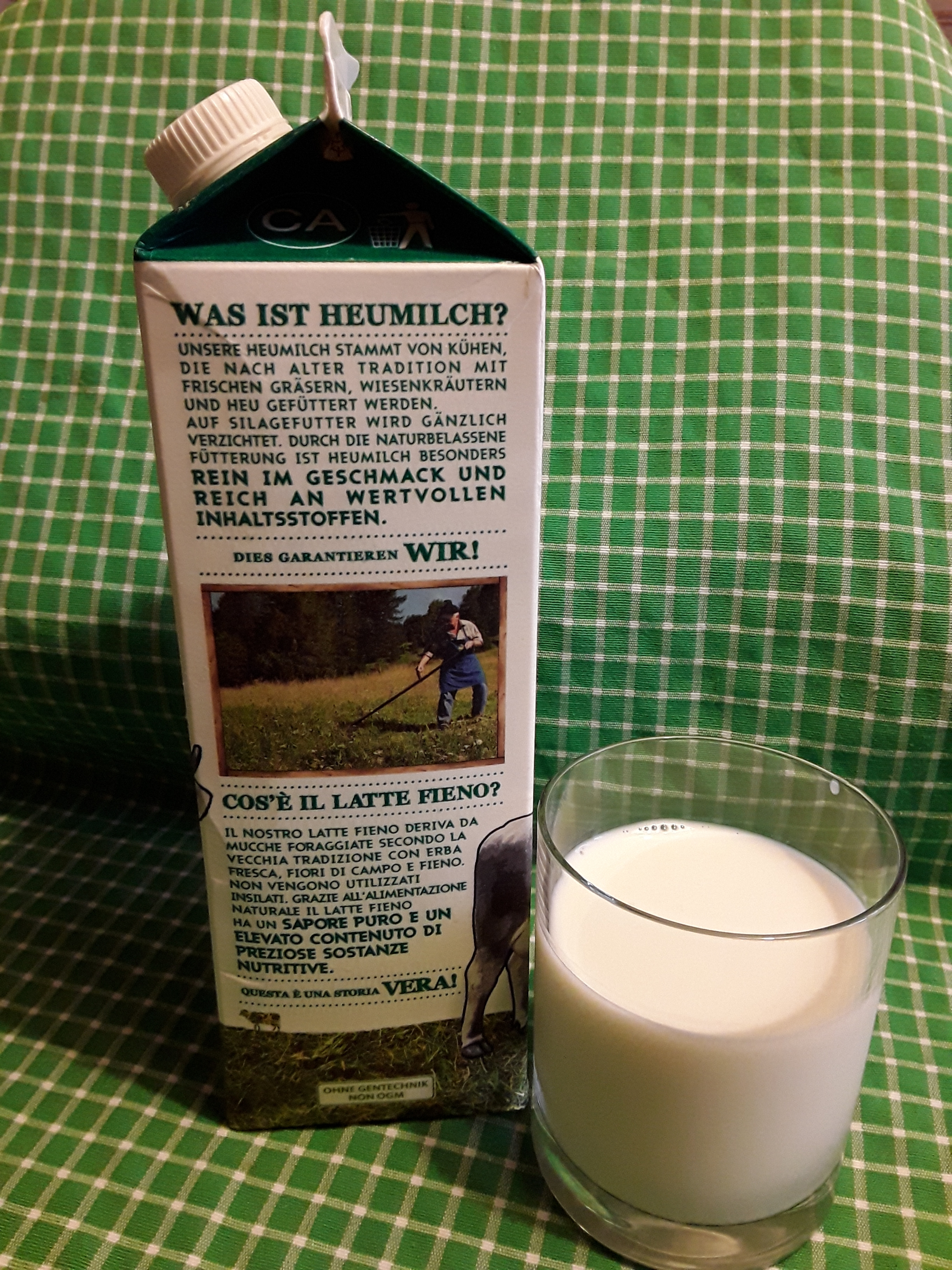 Haymilk